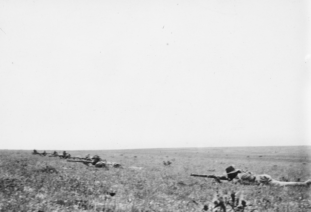 9th Light Horse Regiment troopers in a firing line during the Second Battle of Gaza, 19 April 1917